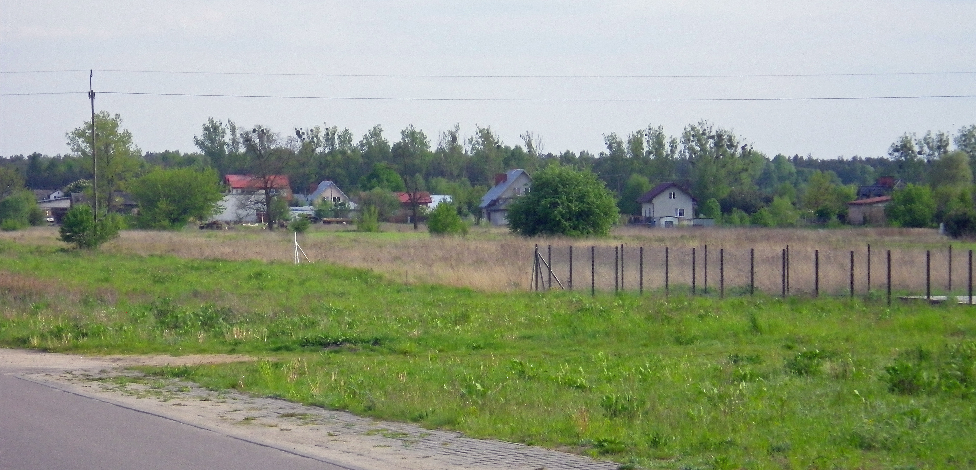 Southern part of Nowe Grochale, gmina Leoncin, Nowy Dwór Mazowiecki Country, Poland